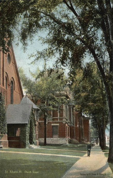 Church Street, St. Albans, Vermont; from a 1909 postcard published by the Hugh C. Leighton Company, Portland, Maine.